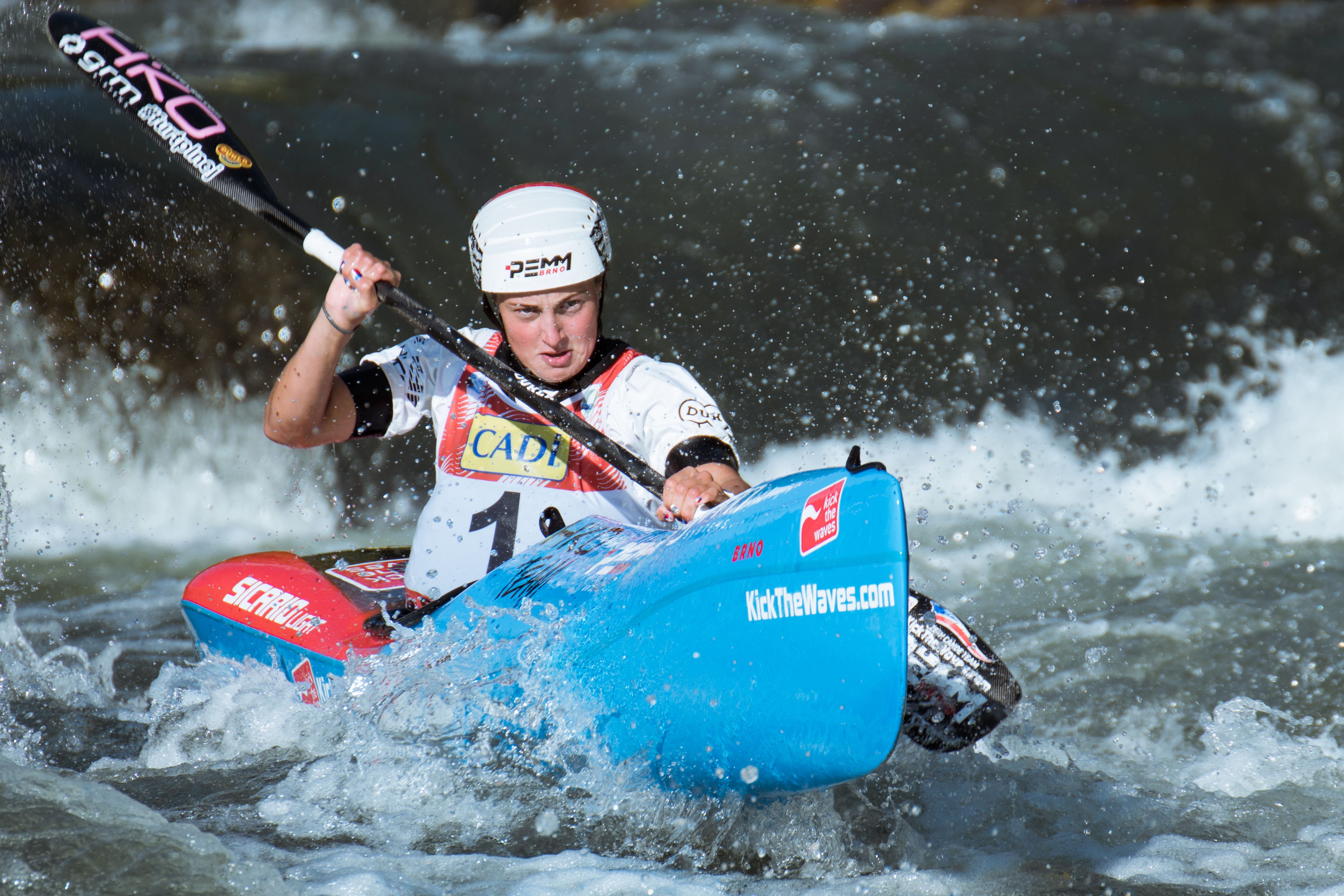 Martina Satková during the 2019 Canoe Wildwater World Championships in La Seu d'Urgell, Spain.